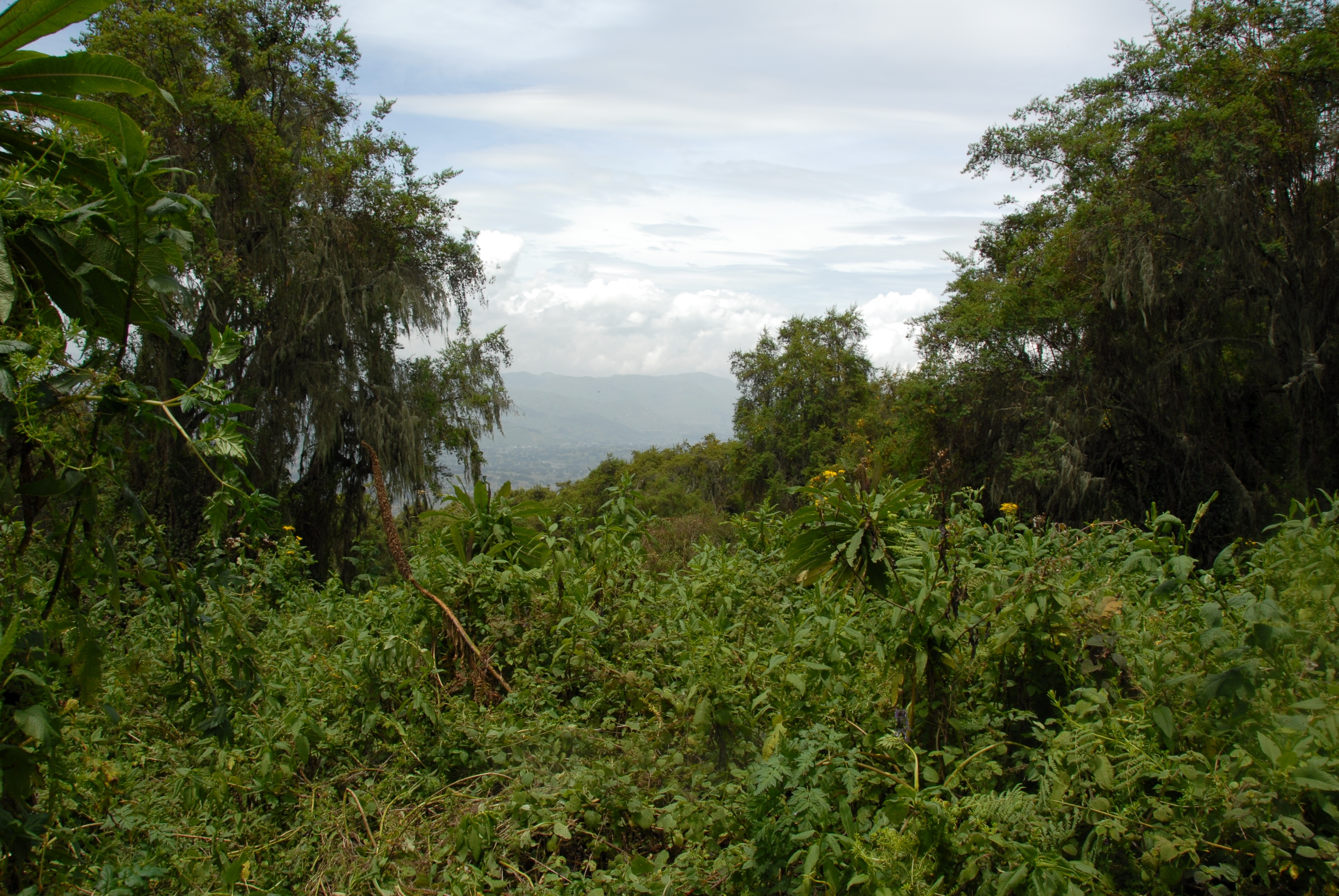 Parc National Des Volcans